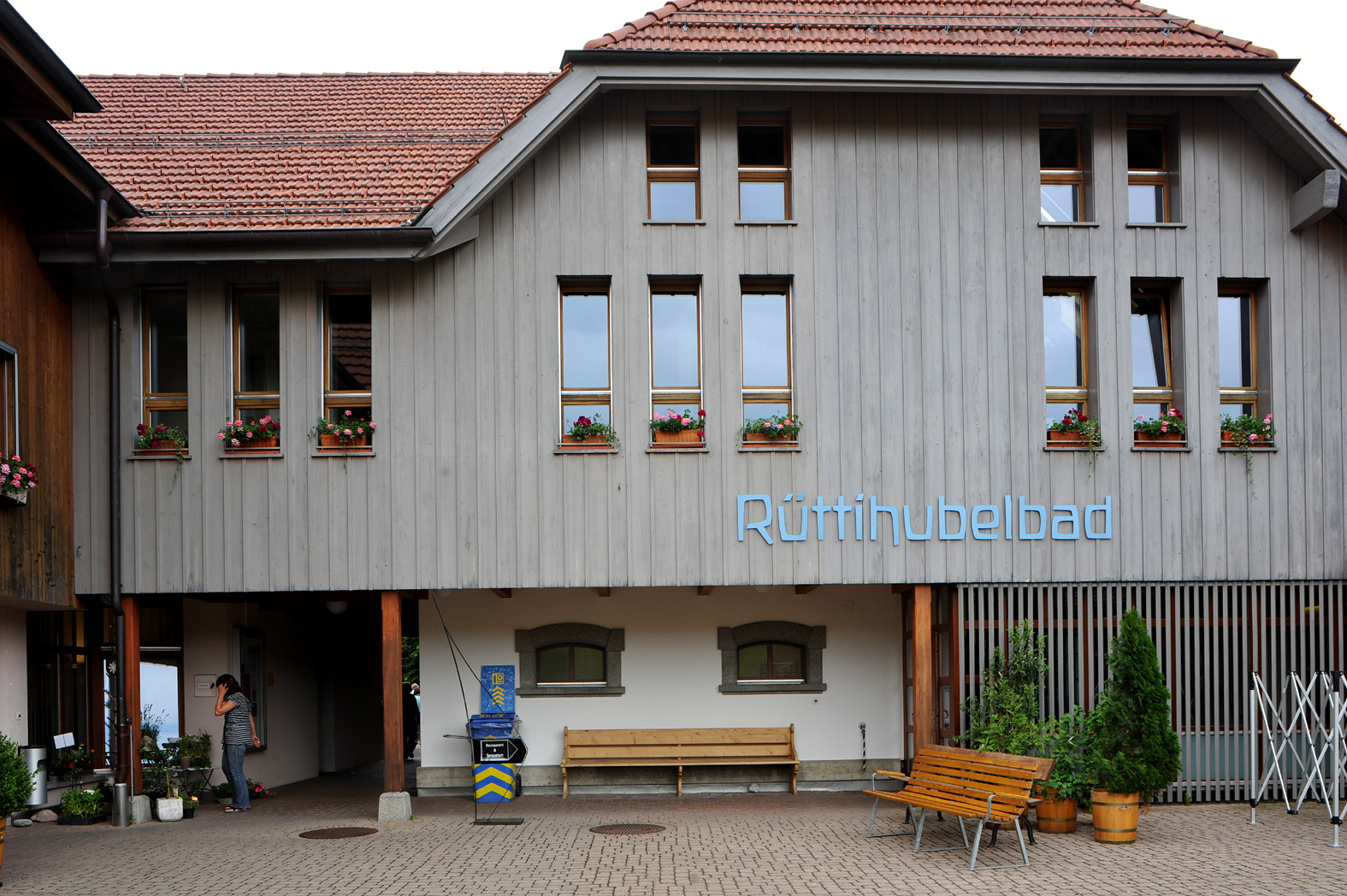 Ruettihubelbad near Worb, restaurant; Berne, Switzerland.